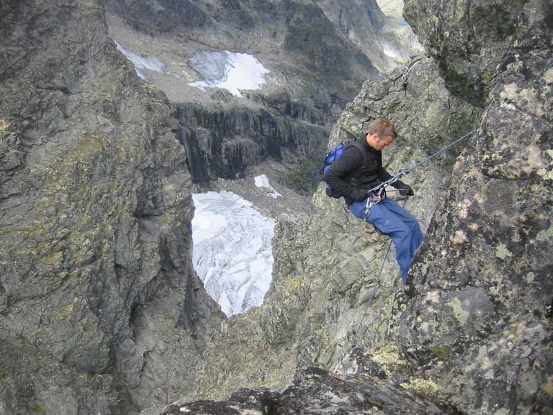 Torfinnstindene, a mountain with three summits in Norway, the highest at 2120 m above sea level.This is the 40 m high vertical east wall of the eastern summit, towards the middle.